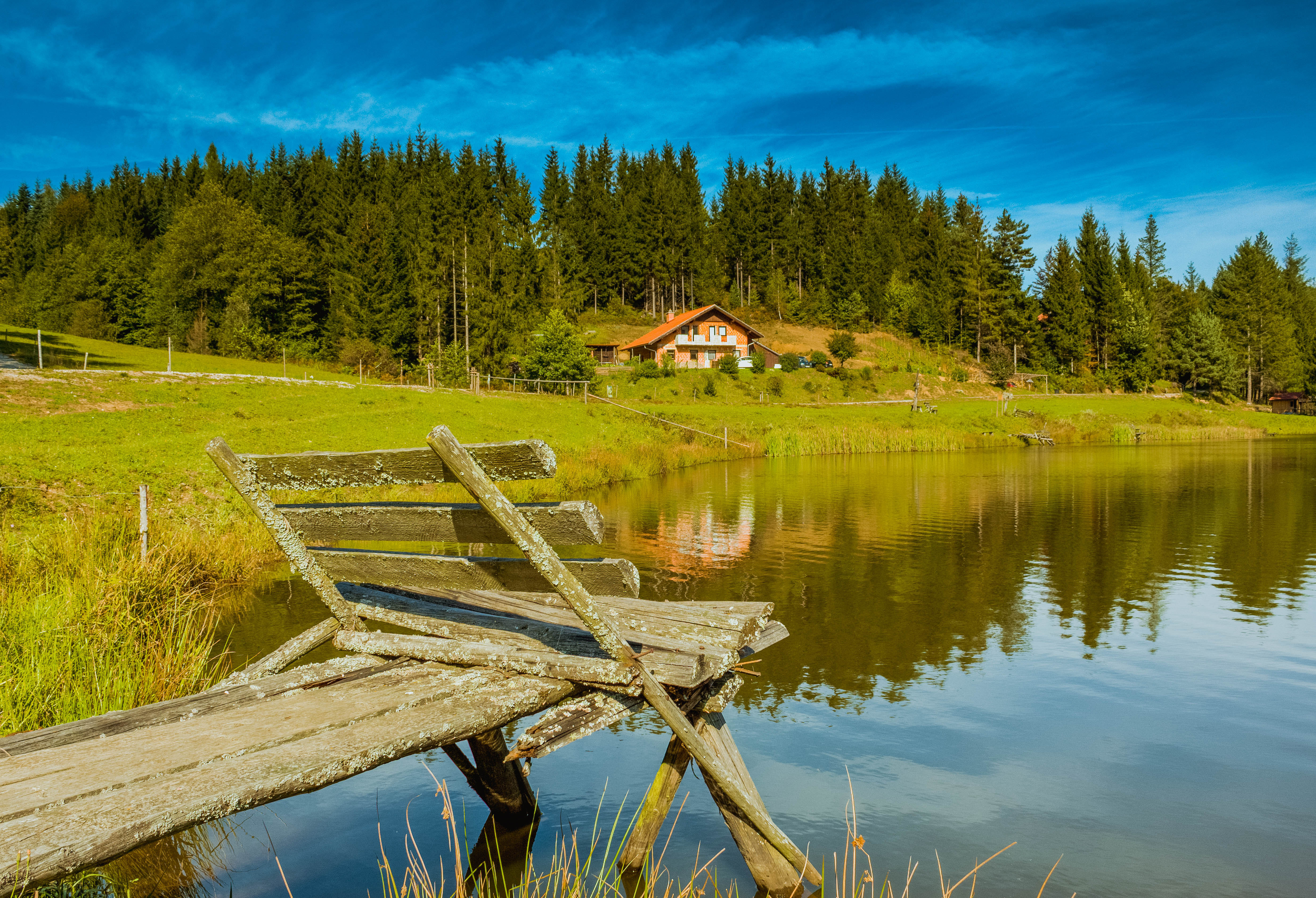 Take a seat at peacful lake